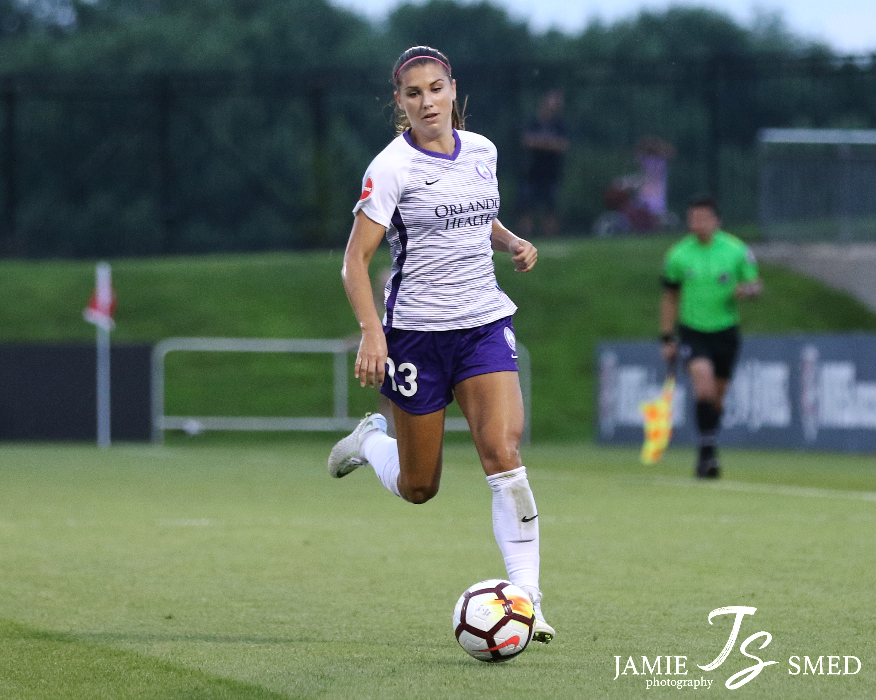 Washington Spirit vs Orlando Pride, 23 June 2018, Maryland SoccerPlex, Boyds, MD